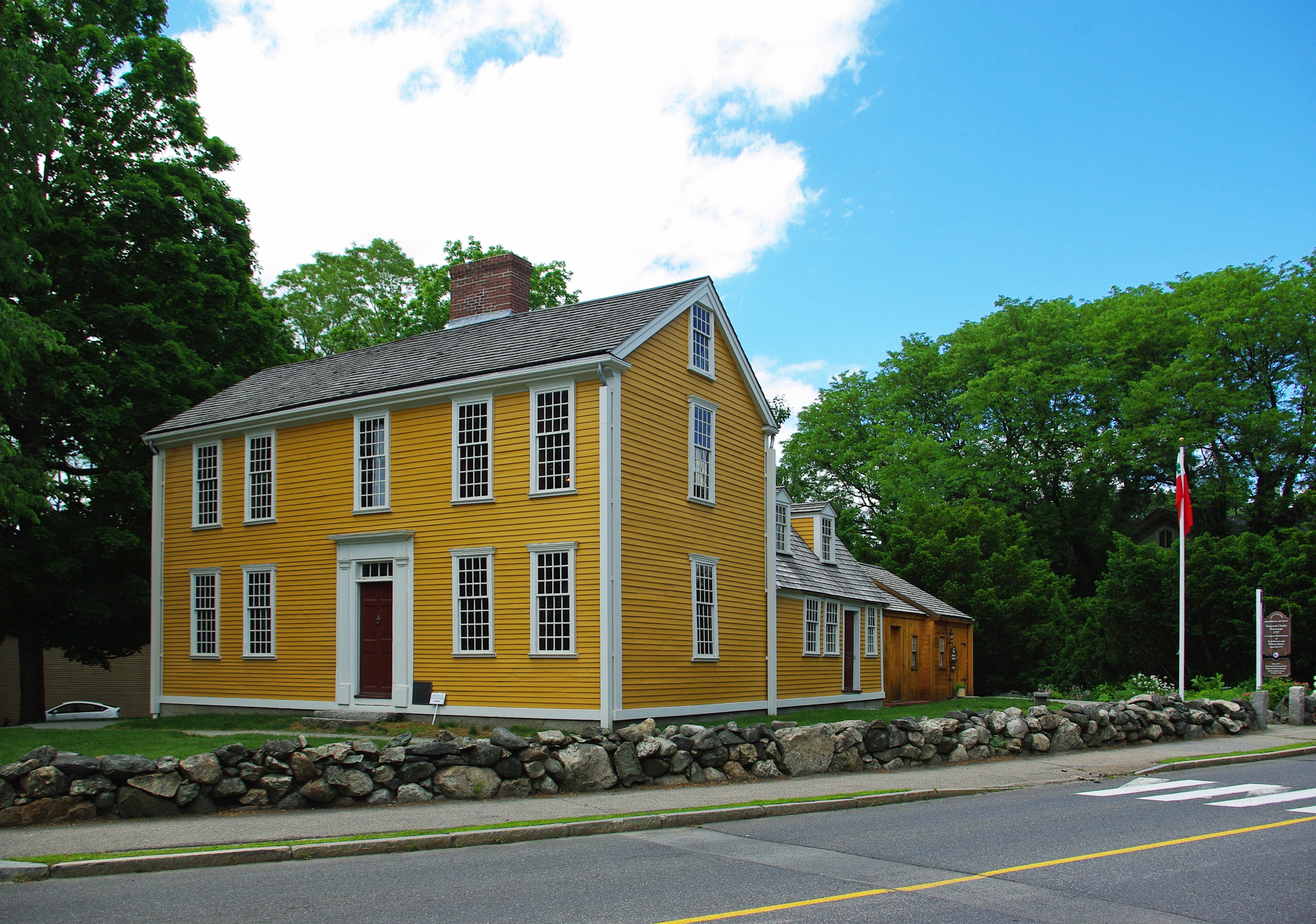 Hancock-Clarke House (1737), Lexington, Massachusetts